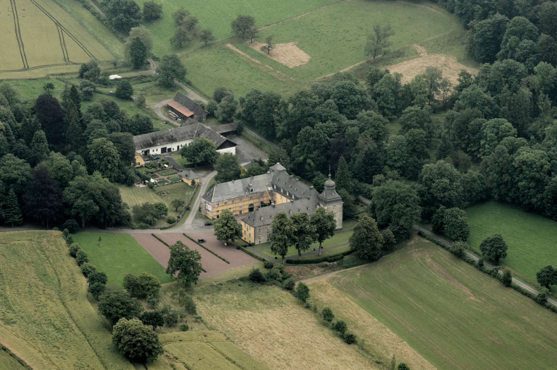 Sundern: Schloss Melschede, Fotoflug Sauerland Nord The making of this document was supported by the Community-Budget of Wikimedia Germany.